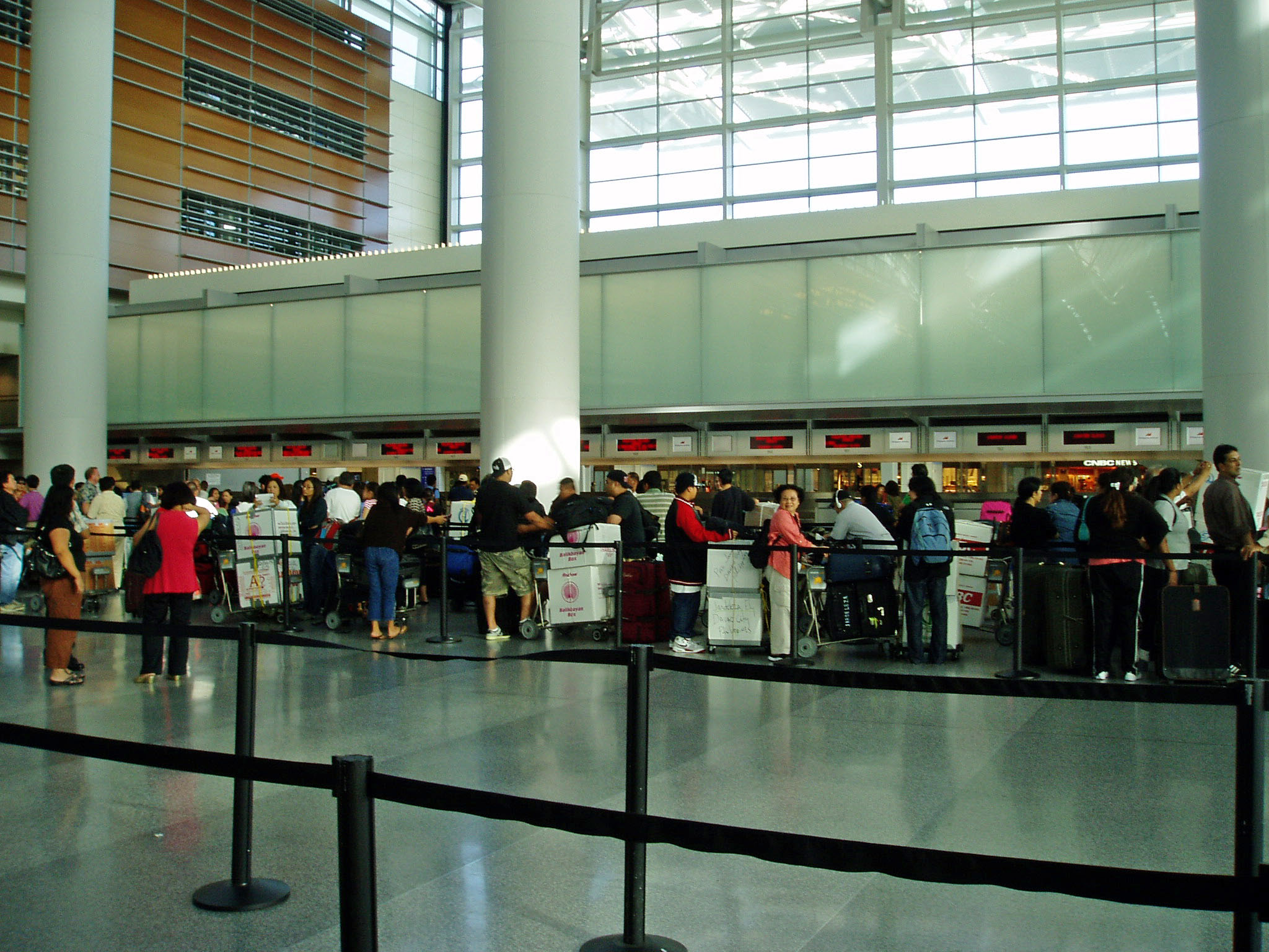 Travellers stand in line for a flight to the Philippines carrying balikbayan boxes. At San Francisco International Airport, United States.